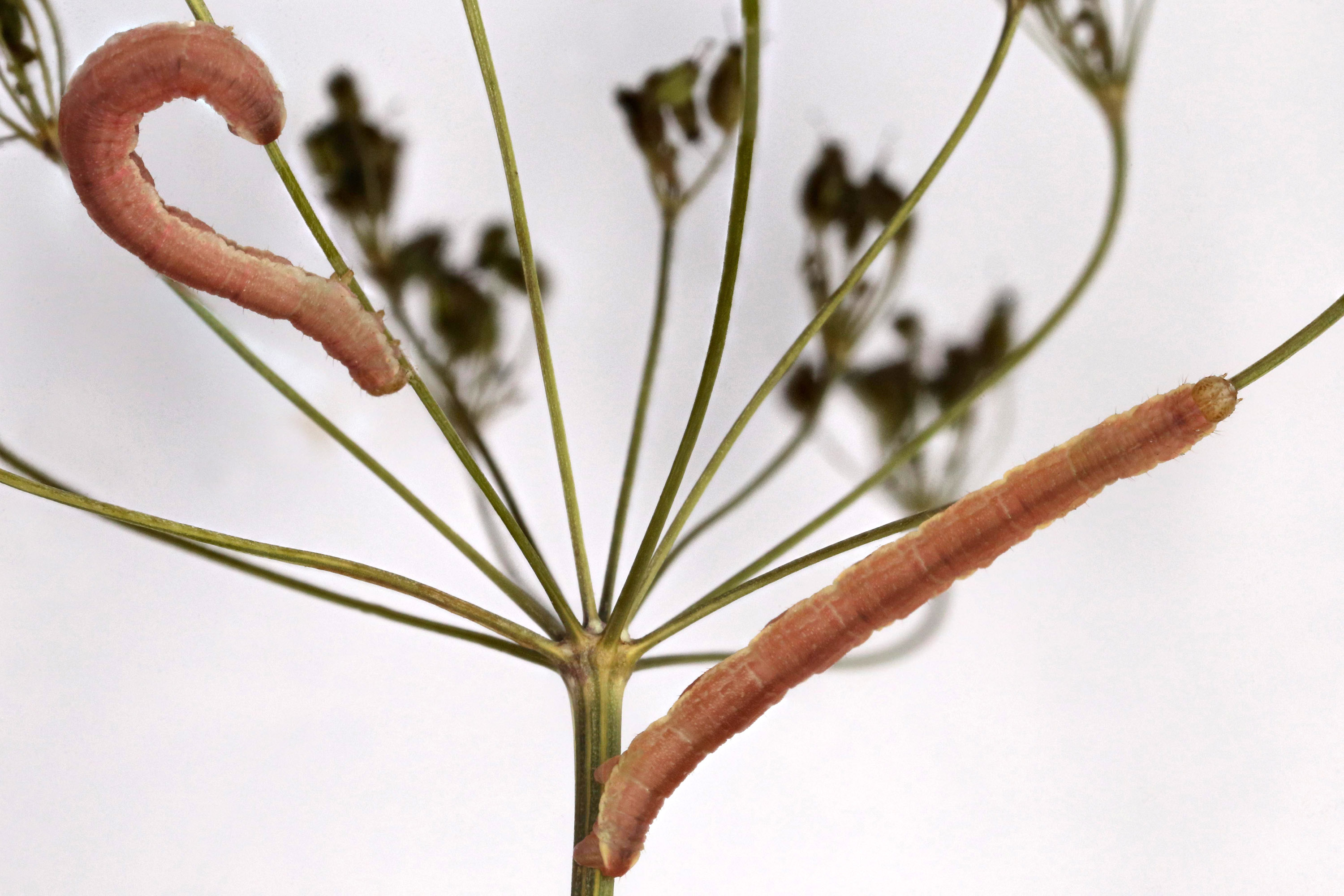 Eupithecia pimpinellata, Pimpinel Pug, Minera, North Wales, Sept 2017